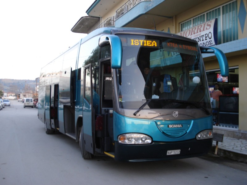 A suburban coach of Scania brand and Irizar type belonging to Euboea public transport provider (KTEL Evias) at Istiea's bus station in Northern Euboea.